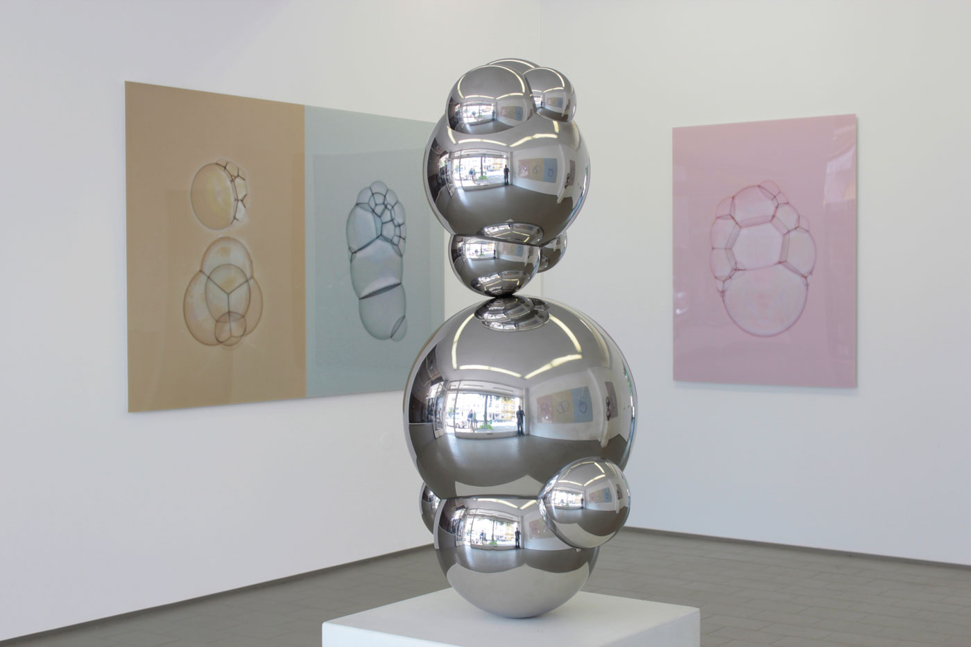 Stemmer - sculpture, In bed with Lucy and Dolly - photograms, solo exhibition view.